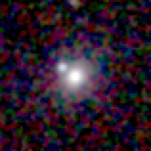 Galaxy NGC 445